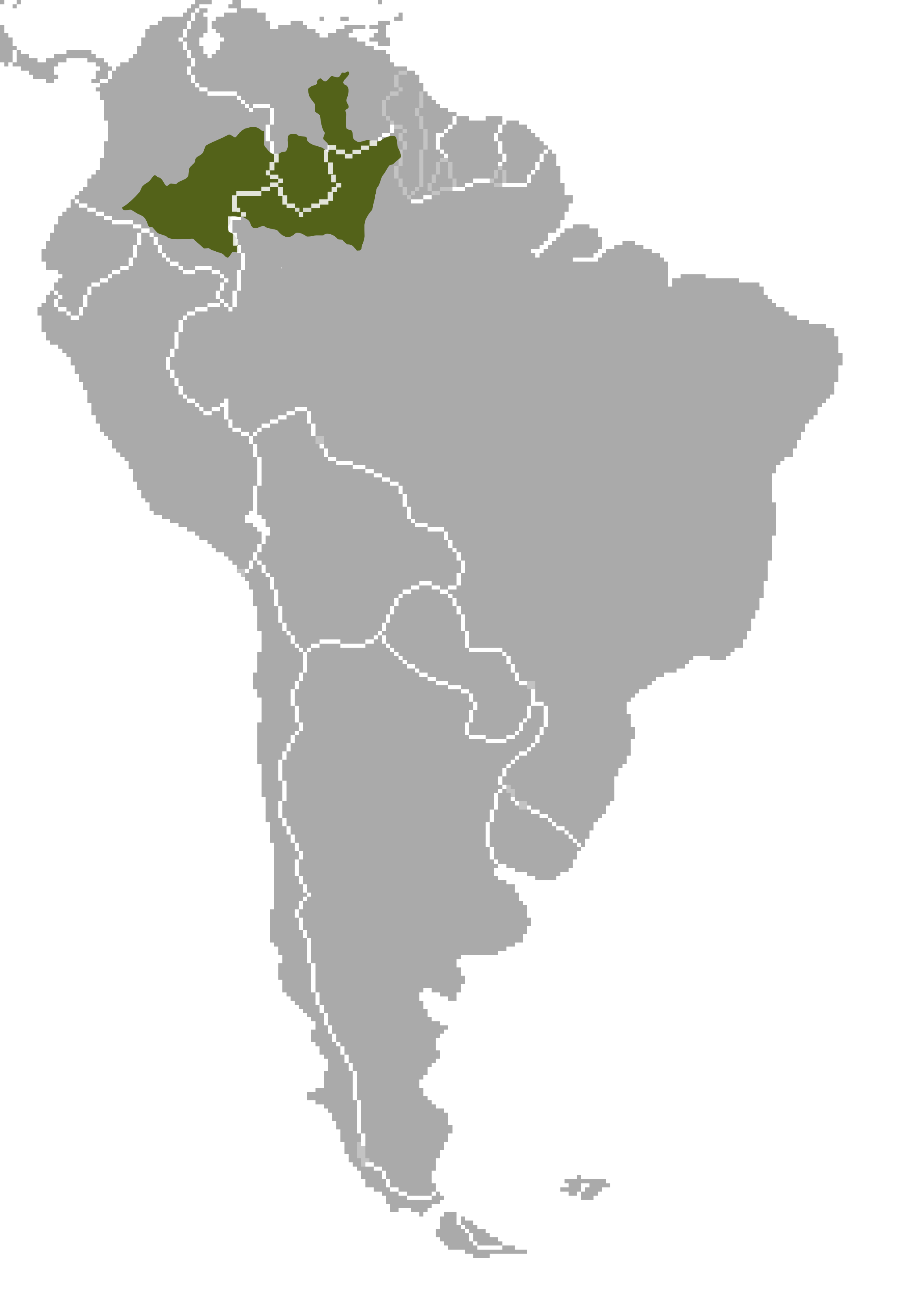 Callicebus lugens (Callicebus lugens) range